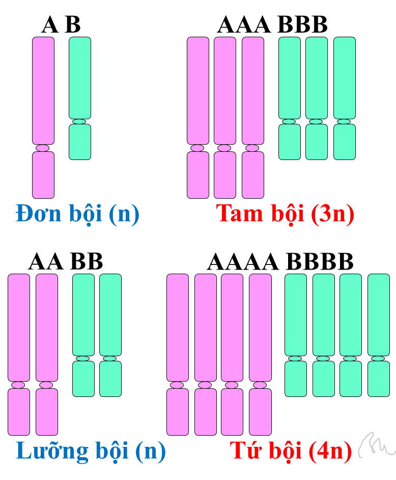 This image shows haploid (AB), diploid (AABB), triploid (AAABBB), and tetraploid (AAAABBBB) sets of chromosomes. Triploid and tetraploid chromosomes are examples of polyploidy.